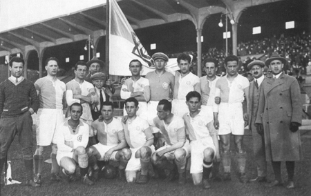 1925 Austrian football champions Hakoah Vienna